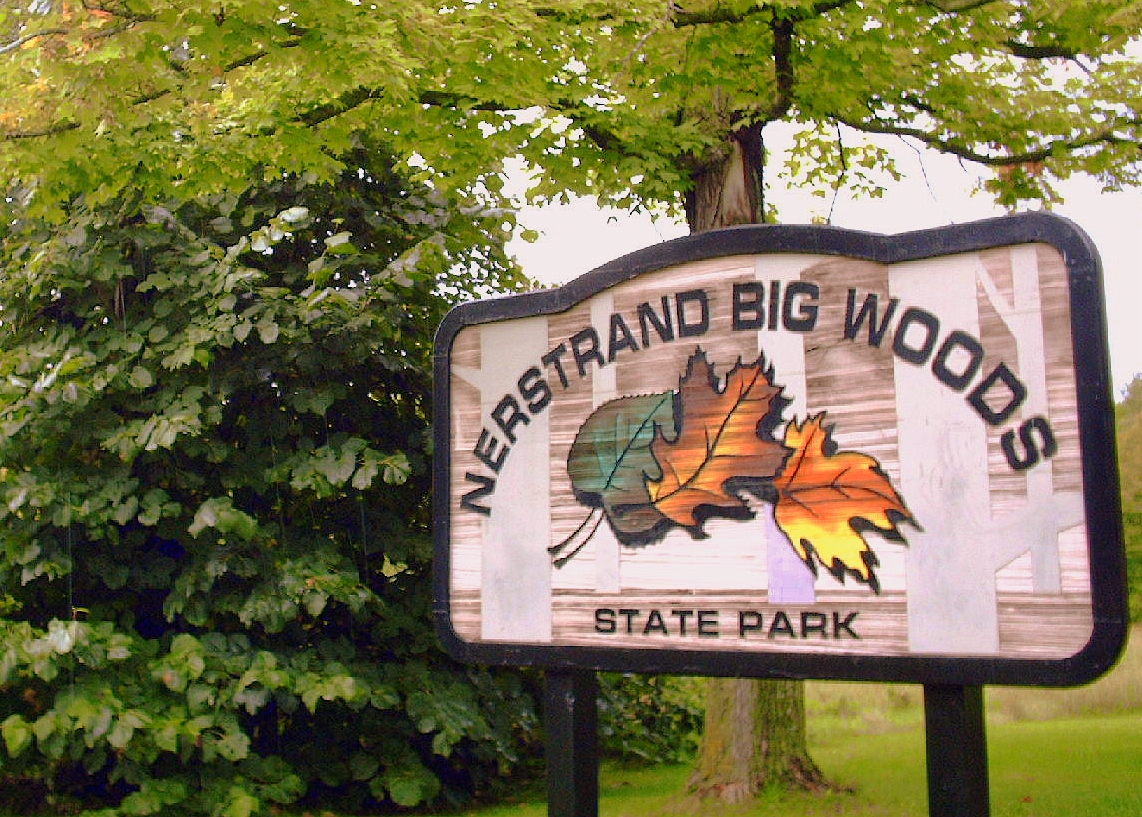 Photo I took in early September 2006 of the entrance sign for Nerstrand-Big Woods State Park in Minnesota. CC & GFDL.